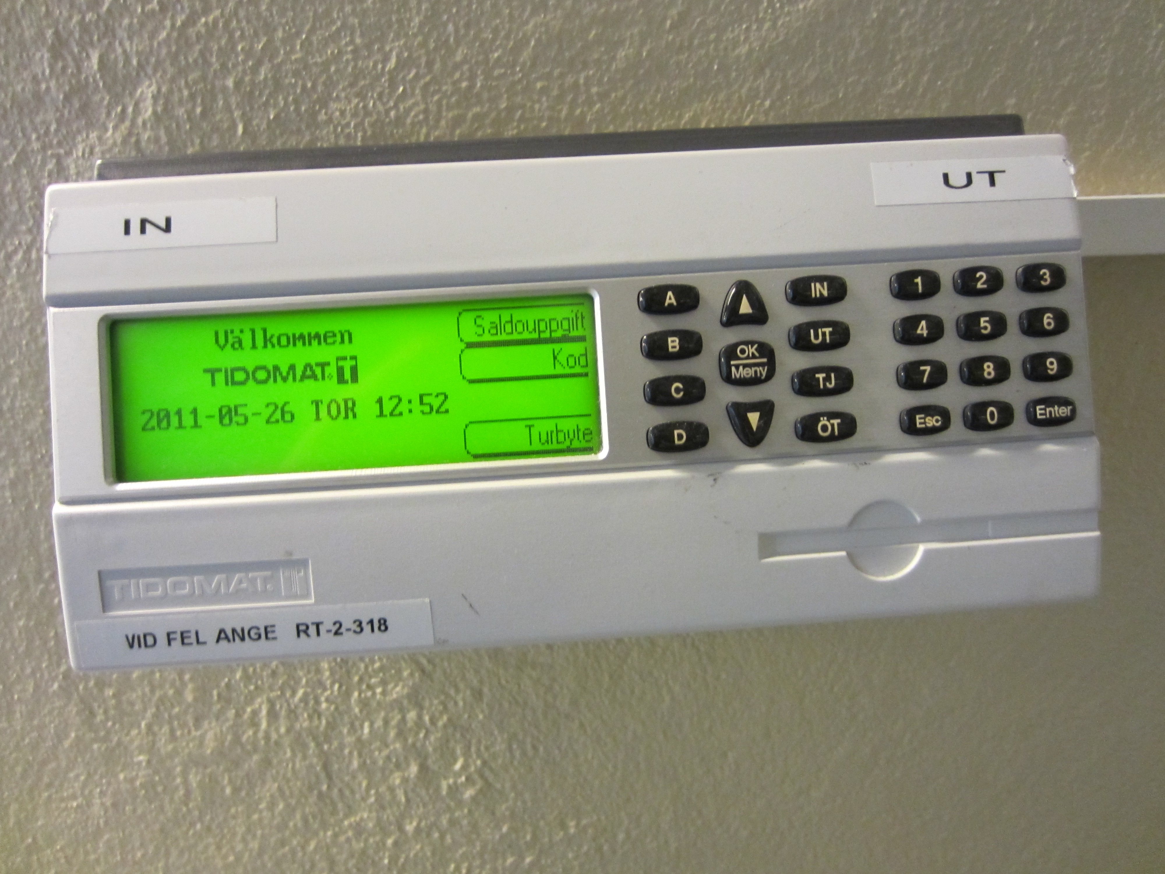 Swedish electric time clock/recorder "Tidomat"